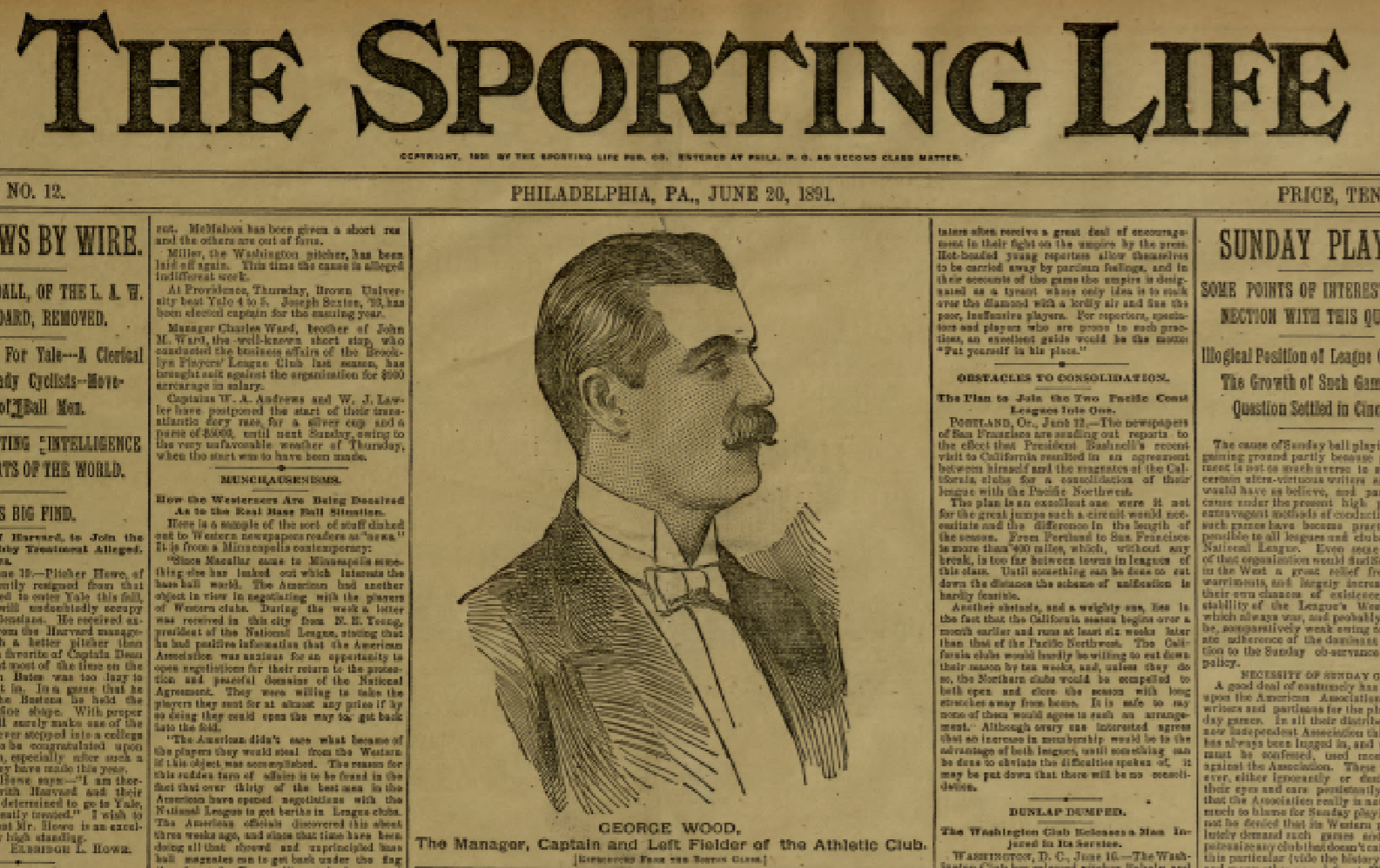 Drawing of George Wood on front page of The Sporting Life